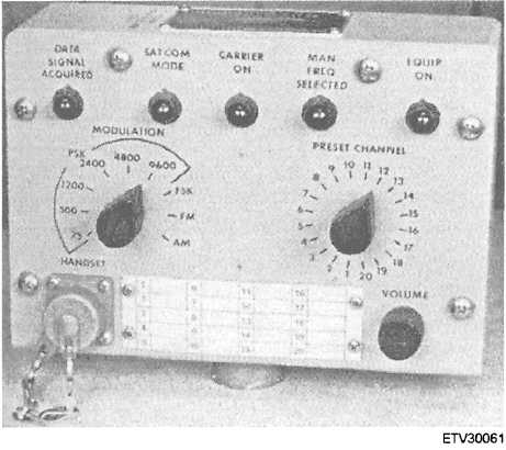 Control-Indicator C-9351/WSC-3.